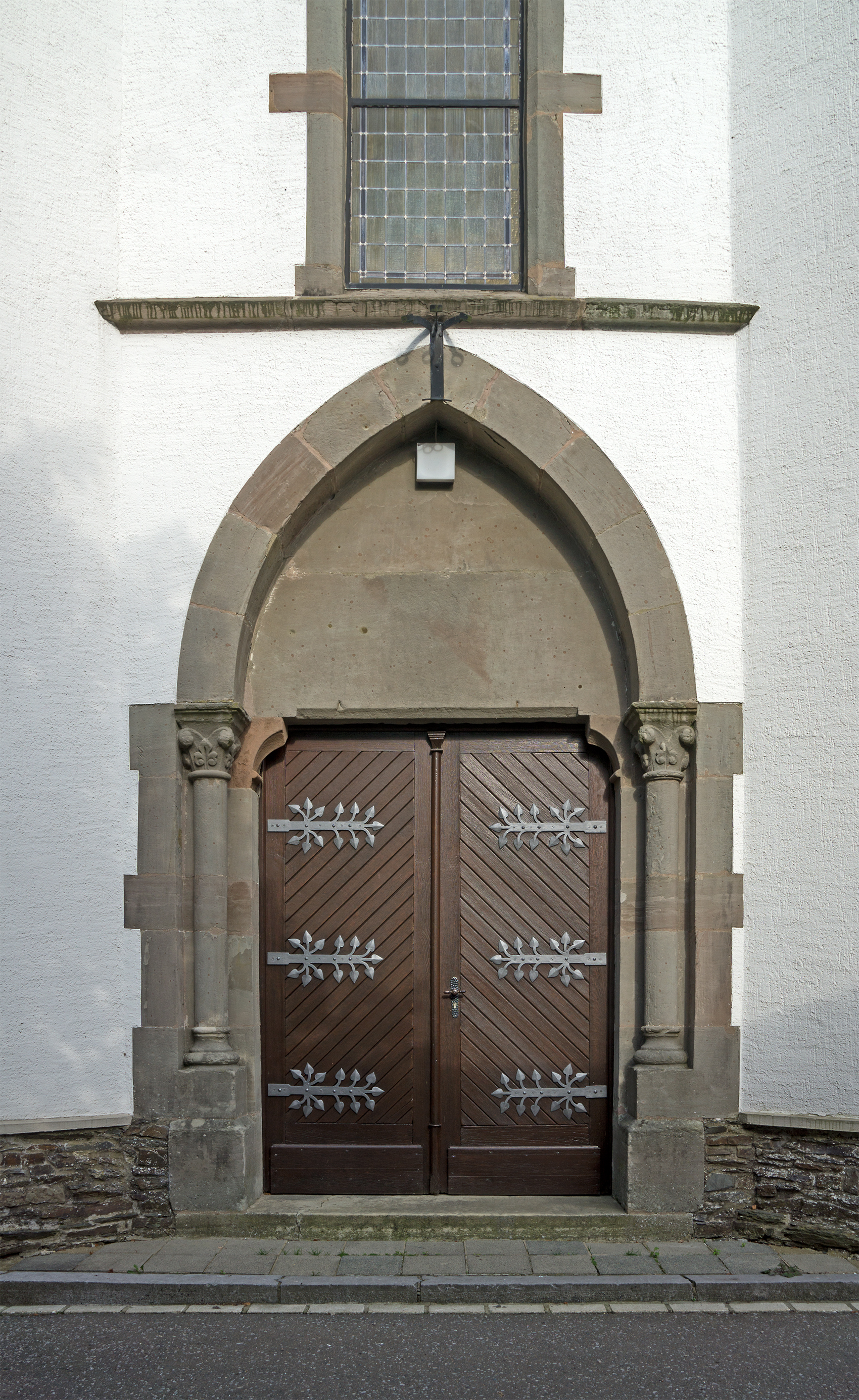 Church of Boxhorn